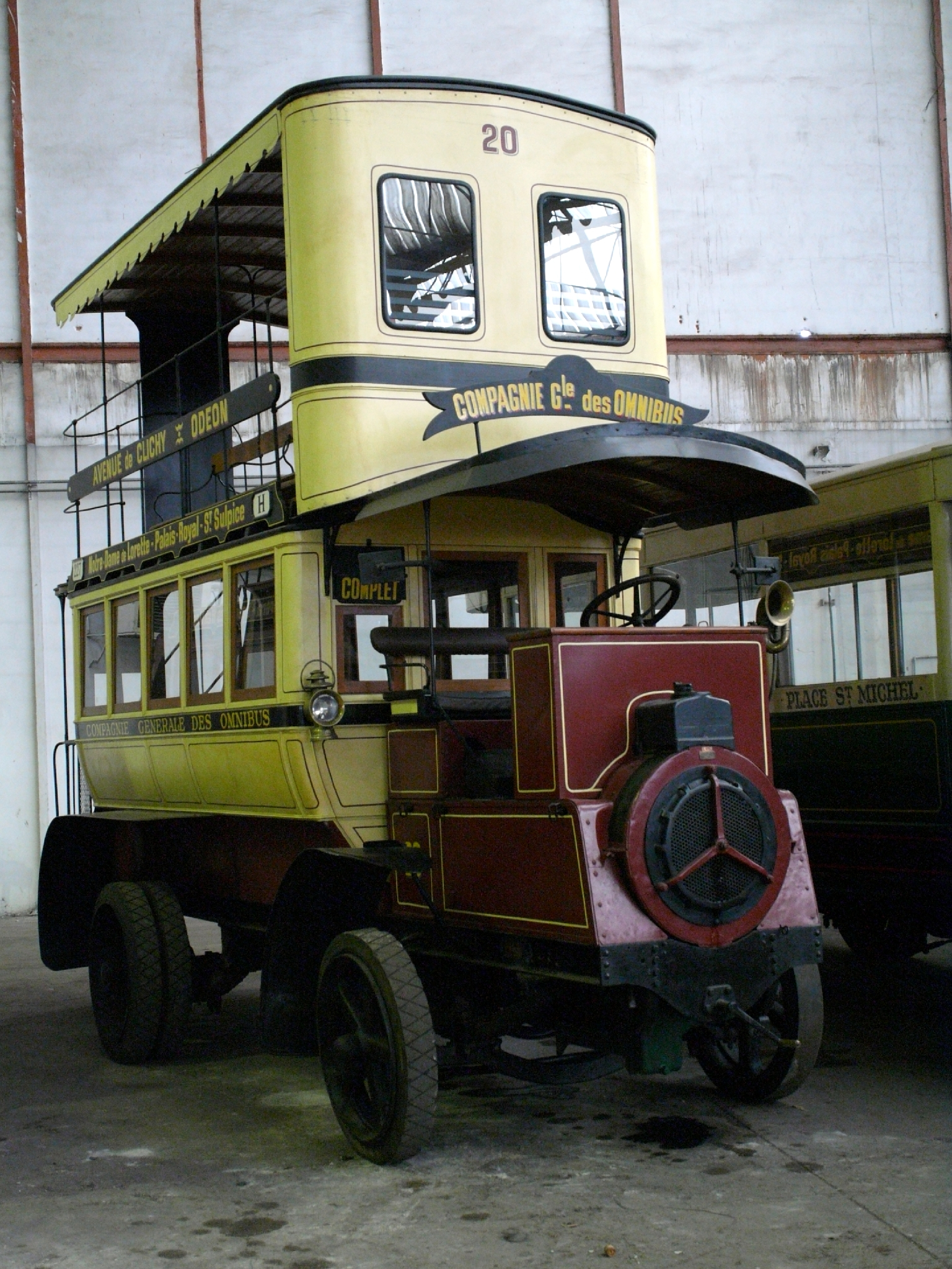 Replica of a Brillié-Schneider P2 builded for the Compagnie générale des omnibus, parisian transportation company early in the 20th century